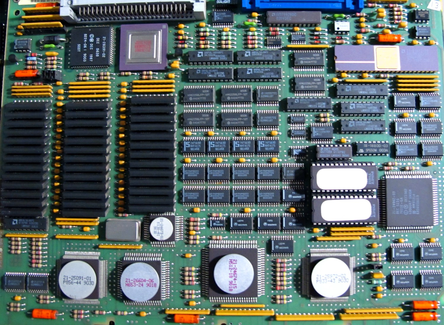 DEC MicroVAX 3400 Mainboard